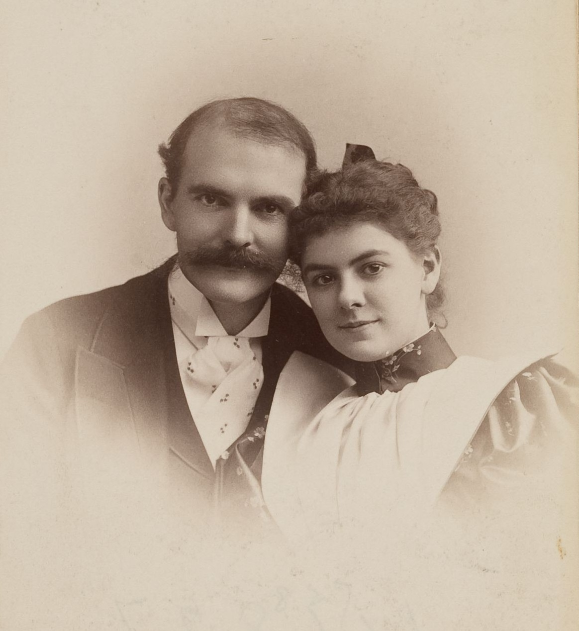 Cabinet card image of American singer Lillian Blauvelt (1873 - 1947) and husband, musician Royal S. Smith. Image likely dates to before 1907; by that year, Blauvelt had married her second husband. Cropped from original version. TCS 1.2664, Harvard Theatre Collection, Harvard University